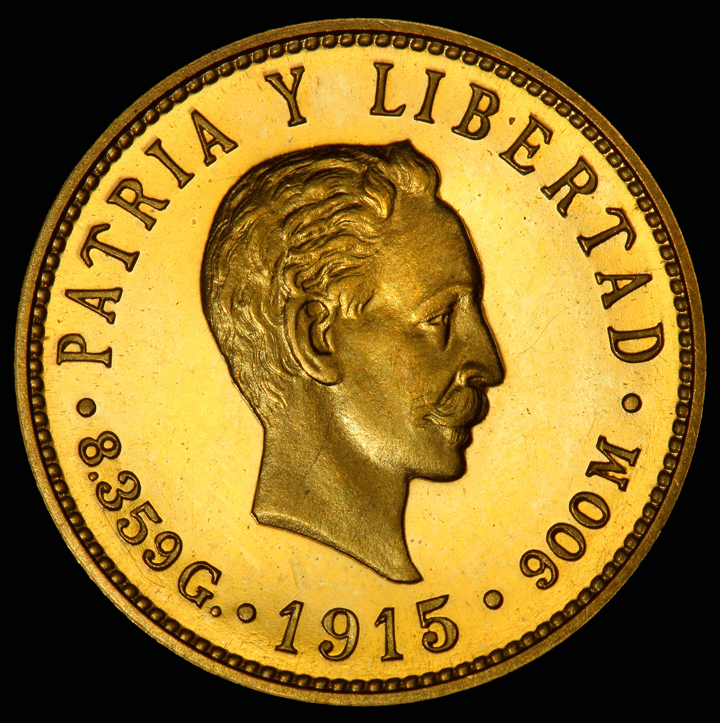 Cuba 1915 5 Pesos (obv)Cuban gold pesos were engraved by Charles Edward Barber, Chief Engraver of the United States Mint and struck at the Philadelphia Mint between 1915 and 1916.